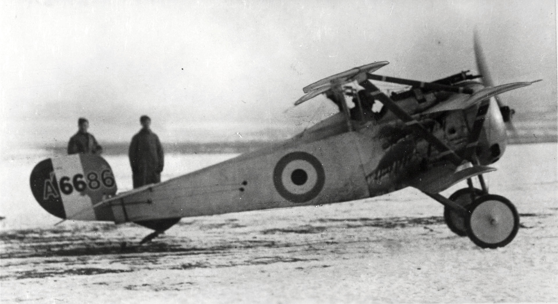 Nieuport 17 triplane with British serial A6686 undergoing evaluation